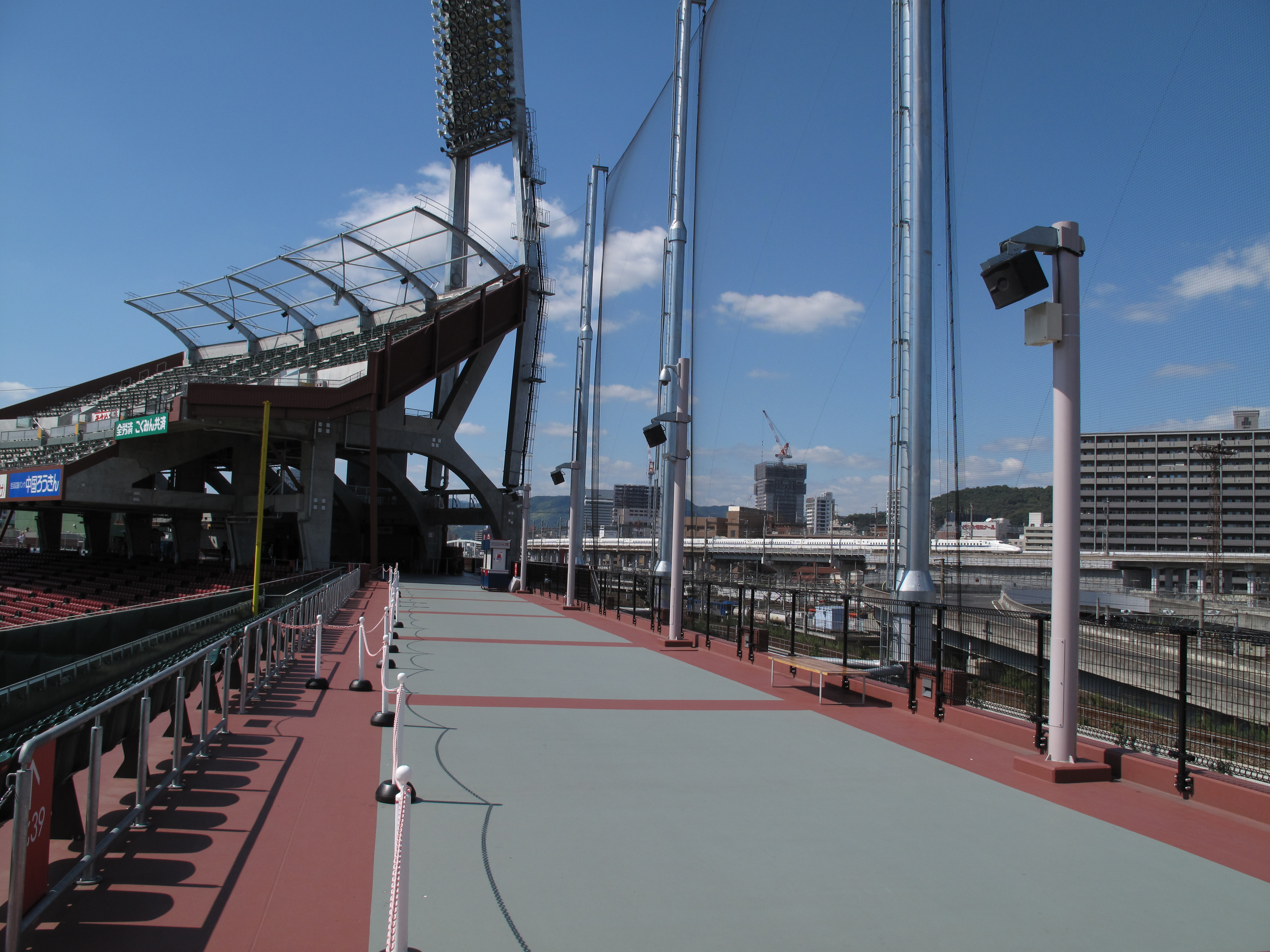 Shinkansen Express that passes by the side of MAZDA Zoom-Zoom Stadium outfield stand